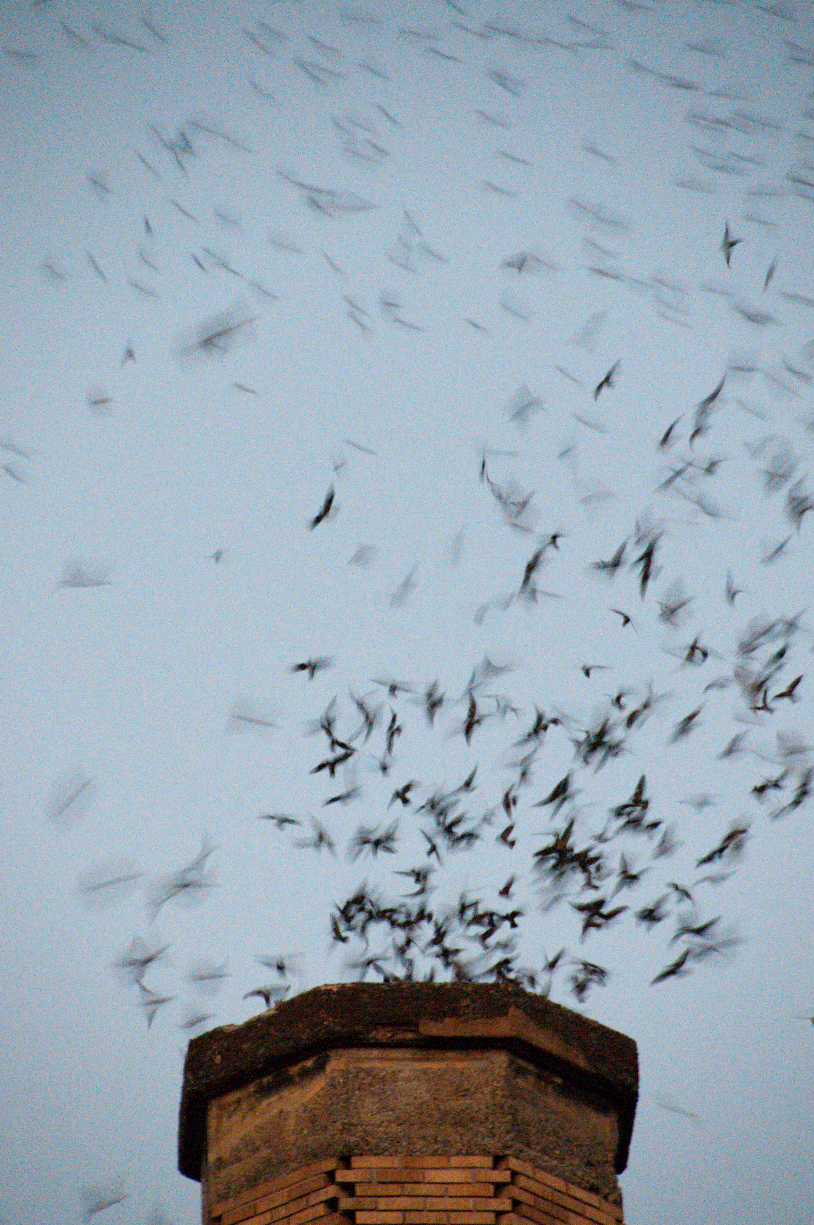 The flock of Vaux's Swifts swirling into a 1920s elementary school chimney to roost for the night. These Vaux's Swifts (Chaetura vauxi) are quite selective about their roost during their annual migration from the Pacific Northwest to Central America. They spend about four weeks in the Portland, Oregon area each autumn.